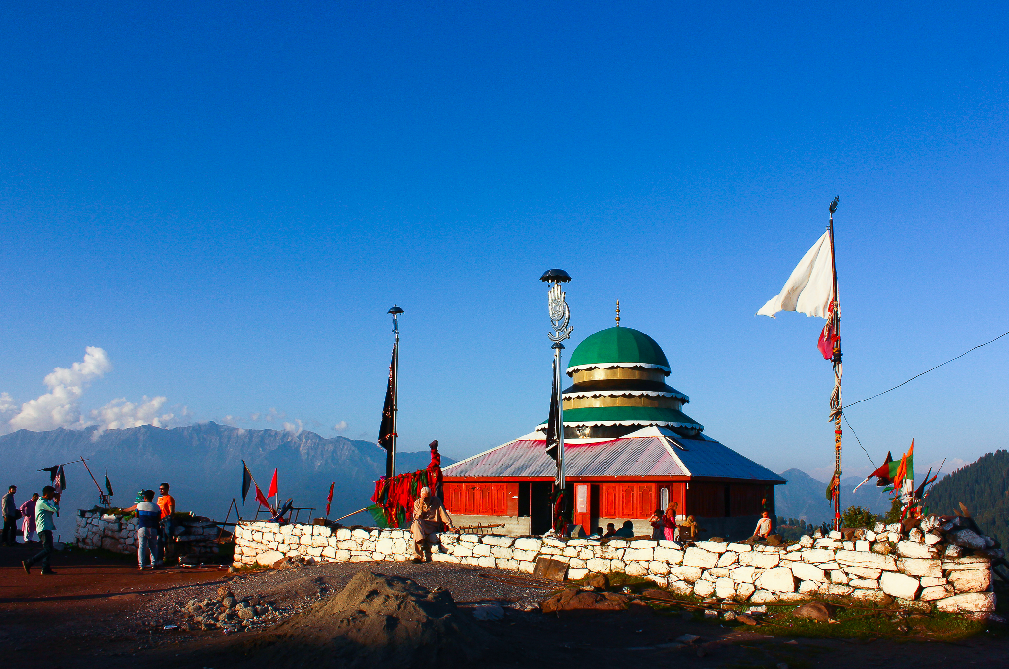 Pir Chinasi is a tourist spot located 30 kilometers (19 mi) east of Muzaffarabad city on the top of hills at an elevation of 2,900 metres (9,500 ft). The mountain peak has gained large fame for its ziyarat of a famous Saint Pir. This is a photo of a monument in Pakistan identified as the AJK-17